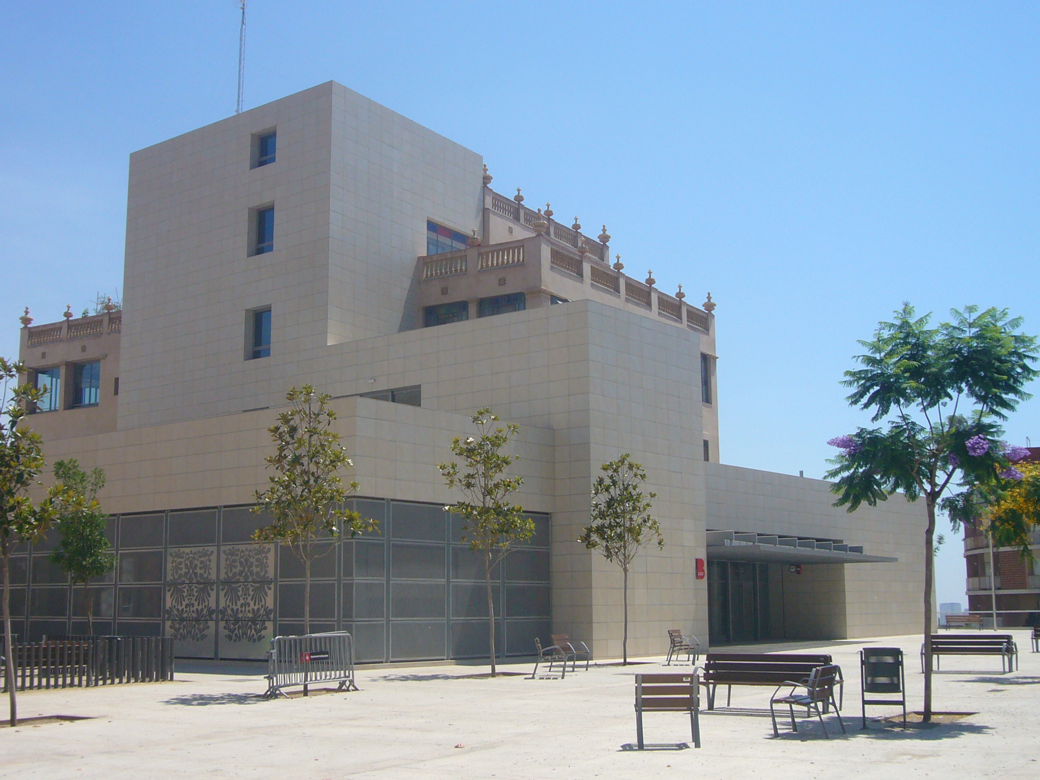 Mas Guinardó